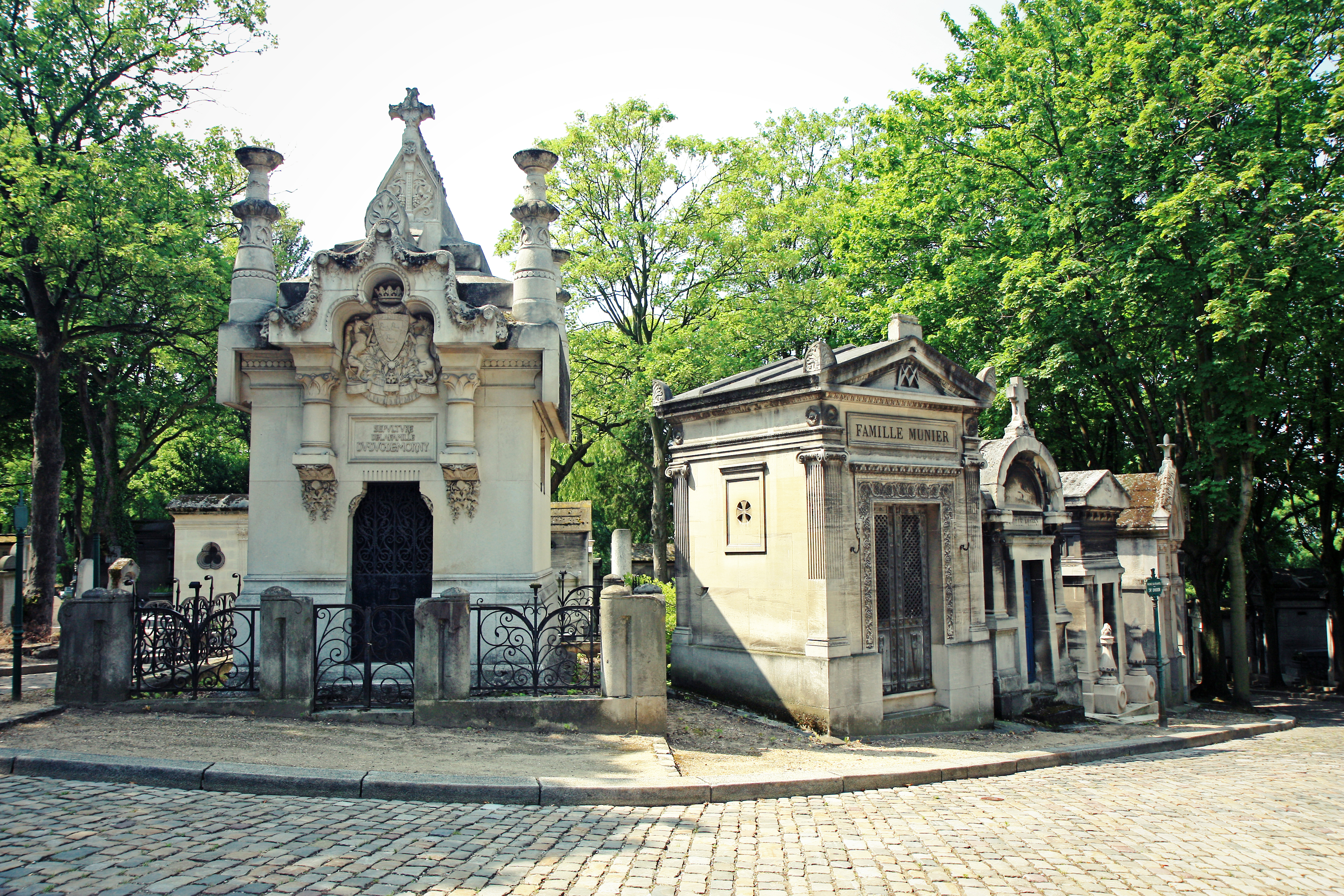 Cemetery Père-Lachaise, division 54. Charles de Morny's mausoleum. General view.